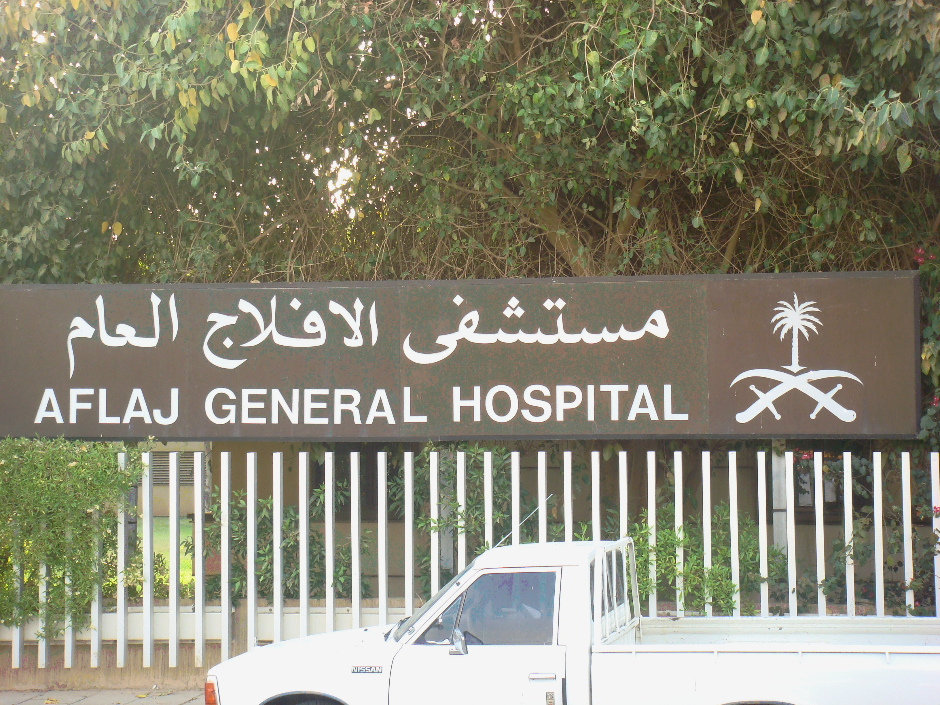 Aflaj General Hospital